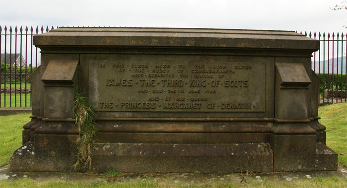 Cambuskenneth Abbey, Stirling, Scotland - tomb of James III en Queen Margaret of Denmark